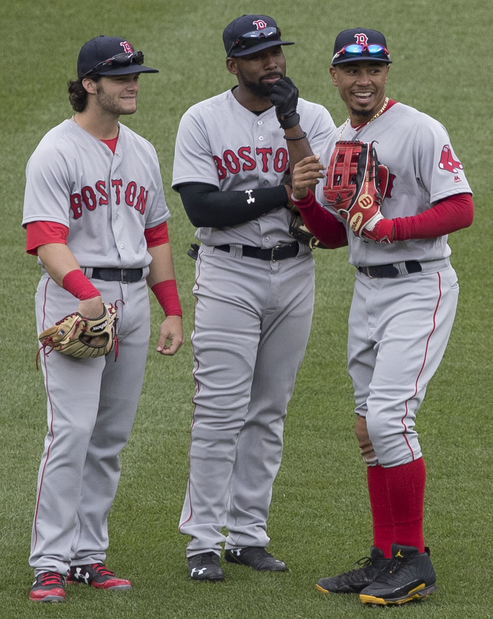 Red Sox at Orioles 4/23/17